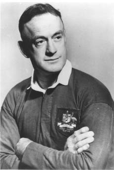 Photo of Australian rugby player, Cyril Towers.